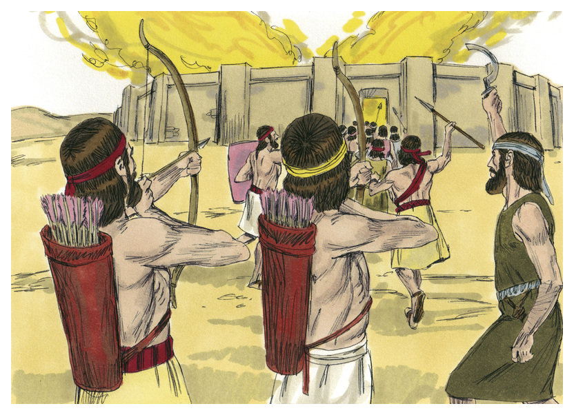 Biblical illustration of Book of Joshua Chapter 8